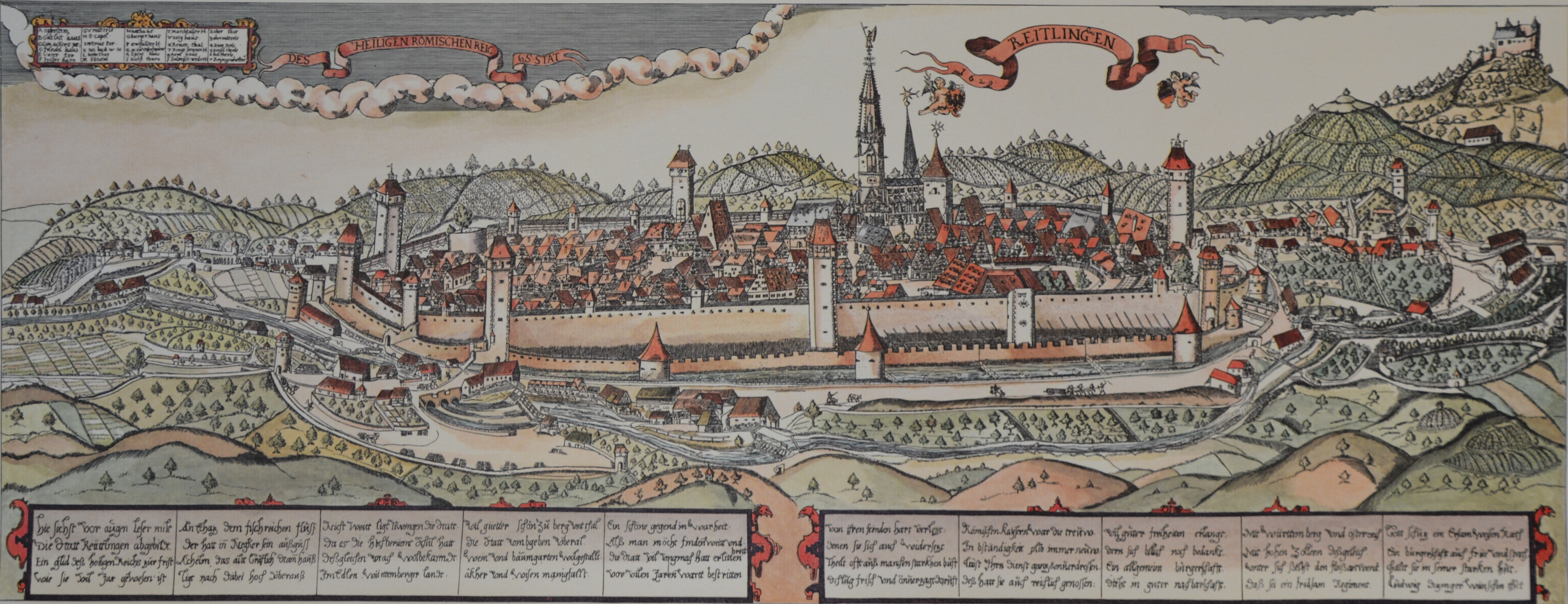 Reutlingen, L. Dizinger 1620